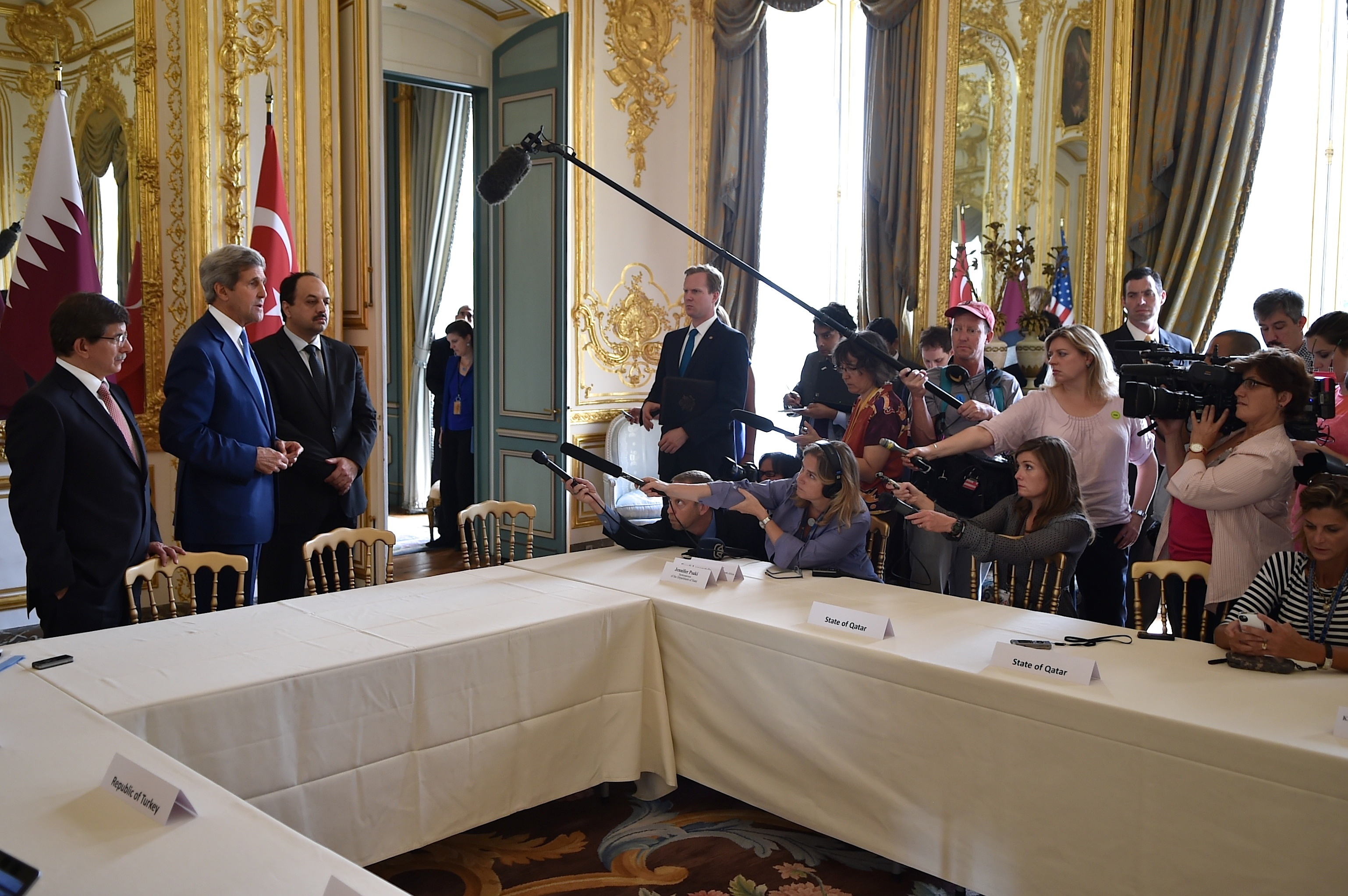 U.S. Secretary of State John Kerry, flanked by Turkish Foreign Minister Ahmet Davutoglu and Qatari Foreign Minister Khalid Al Attiyah, addresses reporters at the U.S. Ambassador's Residence in Paris, France, on July 26, 2014, before a trilateral meeting focused on reaching a cease-fire in the fighting between Israel and Hamas in the Gaza Strip. [State Department photo/ Public Domain]